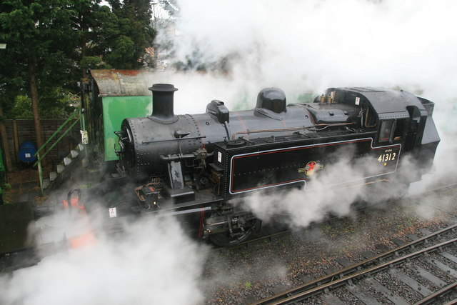 Mid Hants Railway - steamy 'Mickey'. The Ivatt 2MT class 2-6-2T locomotives were known as Mickey Mouse tanks. This is one of four survivors - No. 41312 - and is seen on The Watercress Line or Mid Hants Railway.